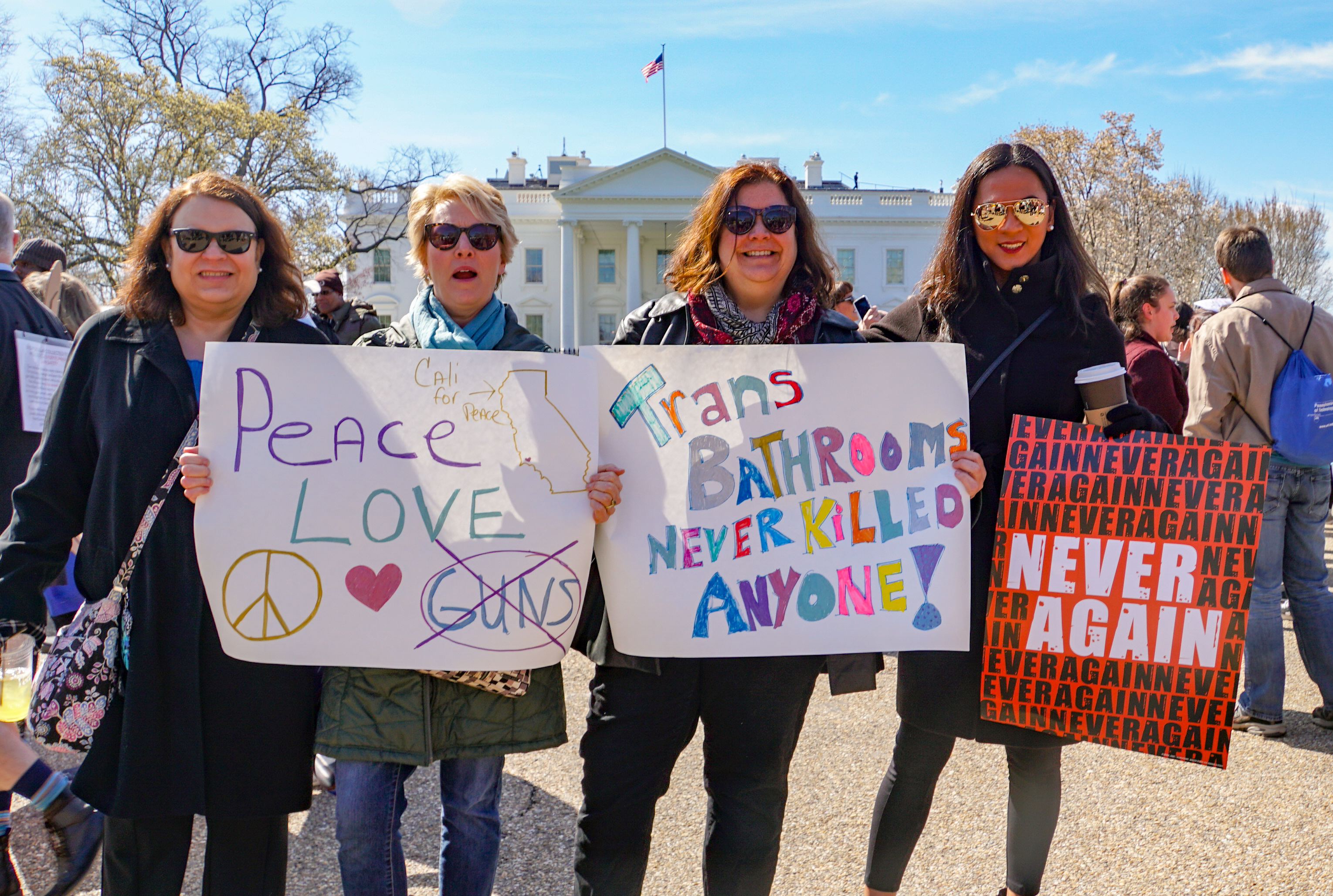 People with the Trans Bathrooms Never Killed Anyone sign didn't realize how awesome they were until we told them...